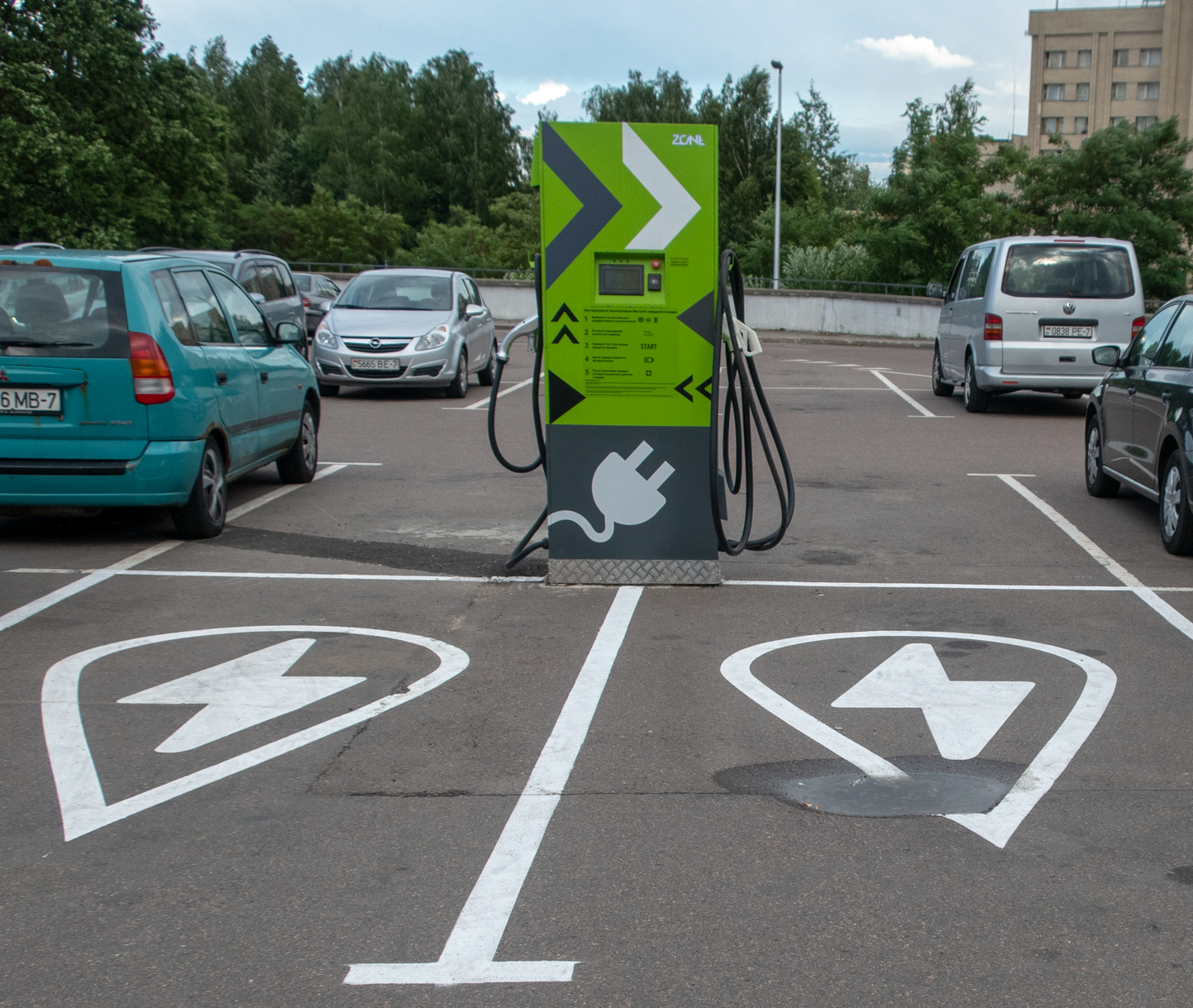 EV charging station (Minsk, Belarus)